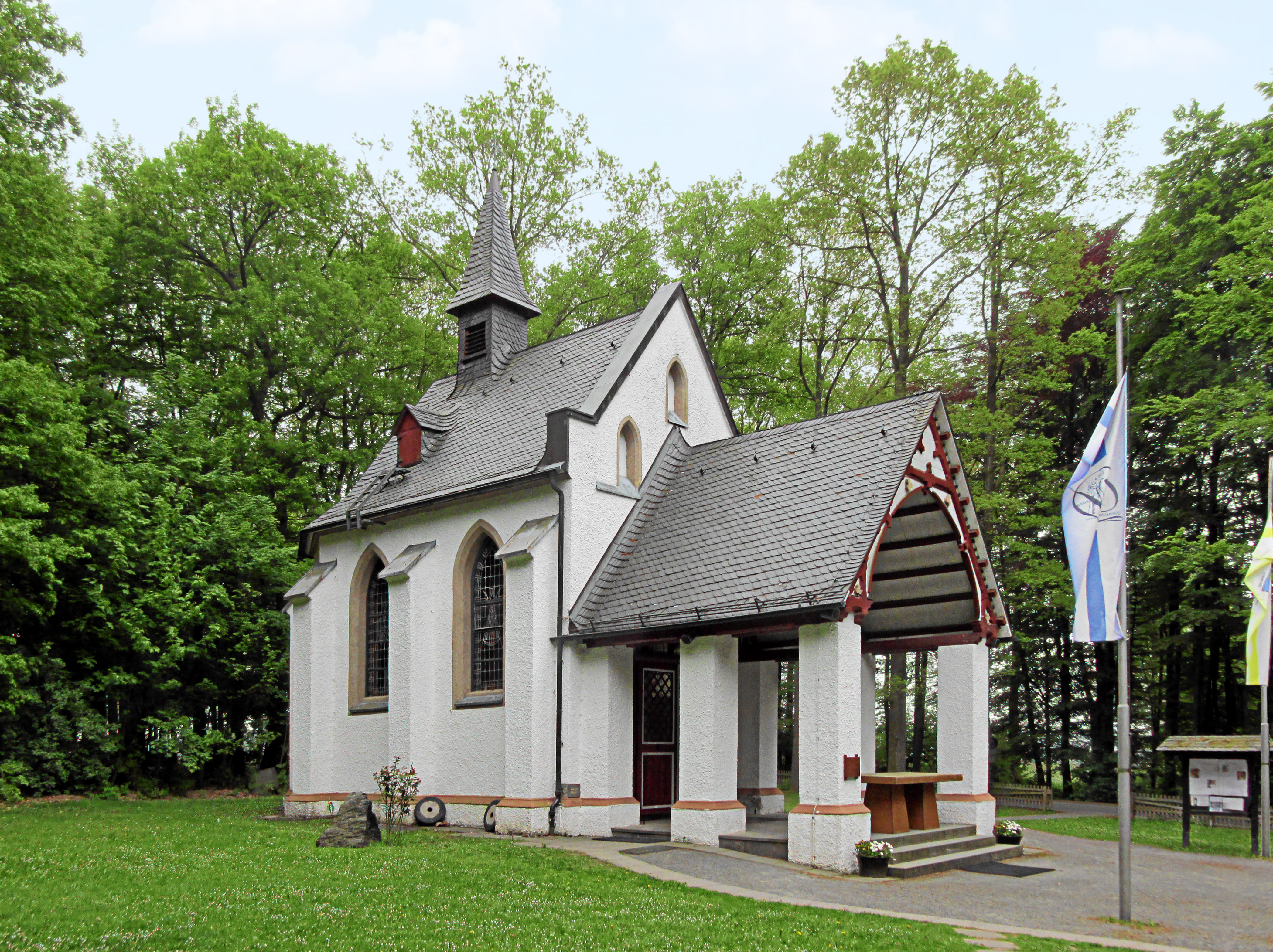 Dörnschlade chapel, Wenden, Germany check usage